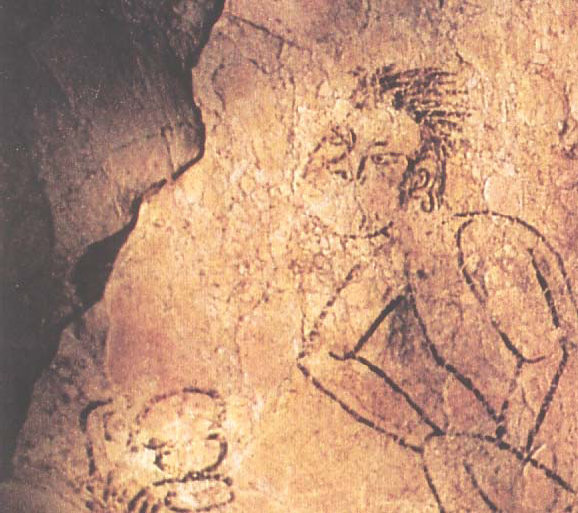 Guatemala – Part of a Naj Tunich wall drawing of a man in rare 3/4 profile performing ritual genital bloodletting